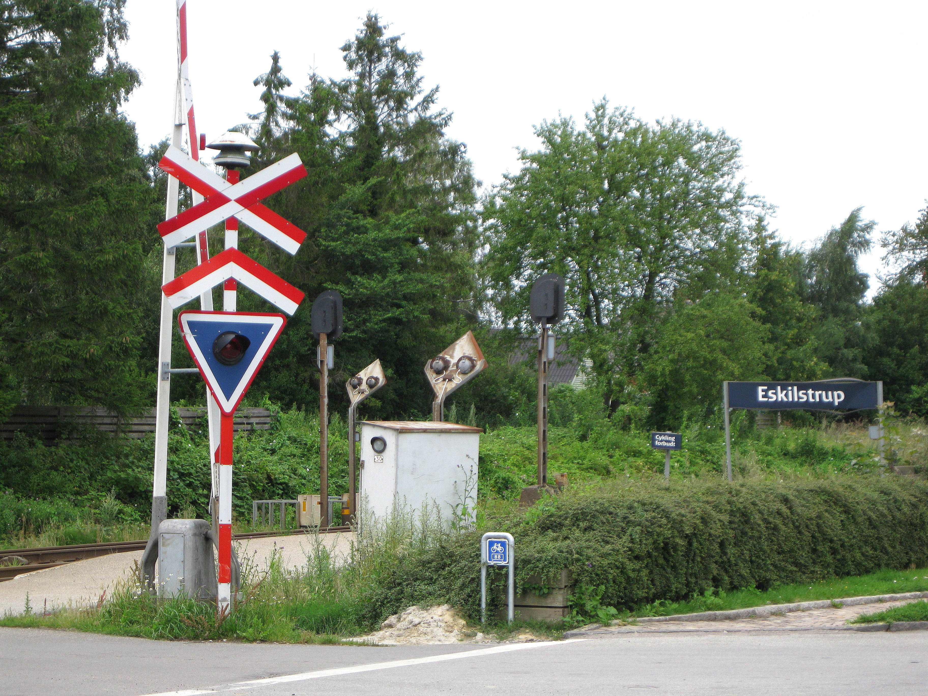 Railway crossing in the small town "Eskilstrup". The town is located on the island Falster in east Denmark.